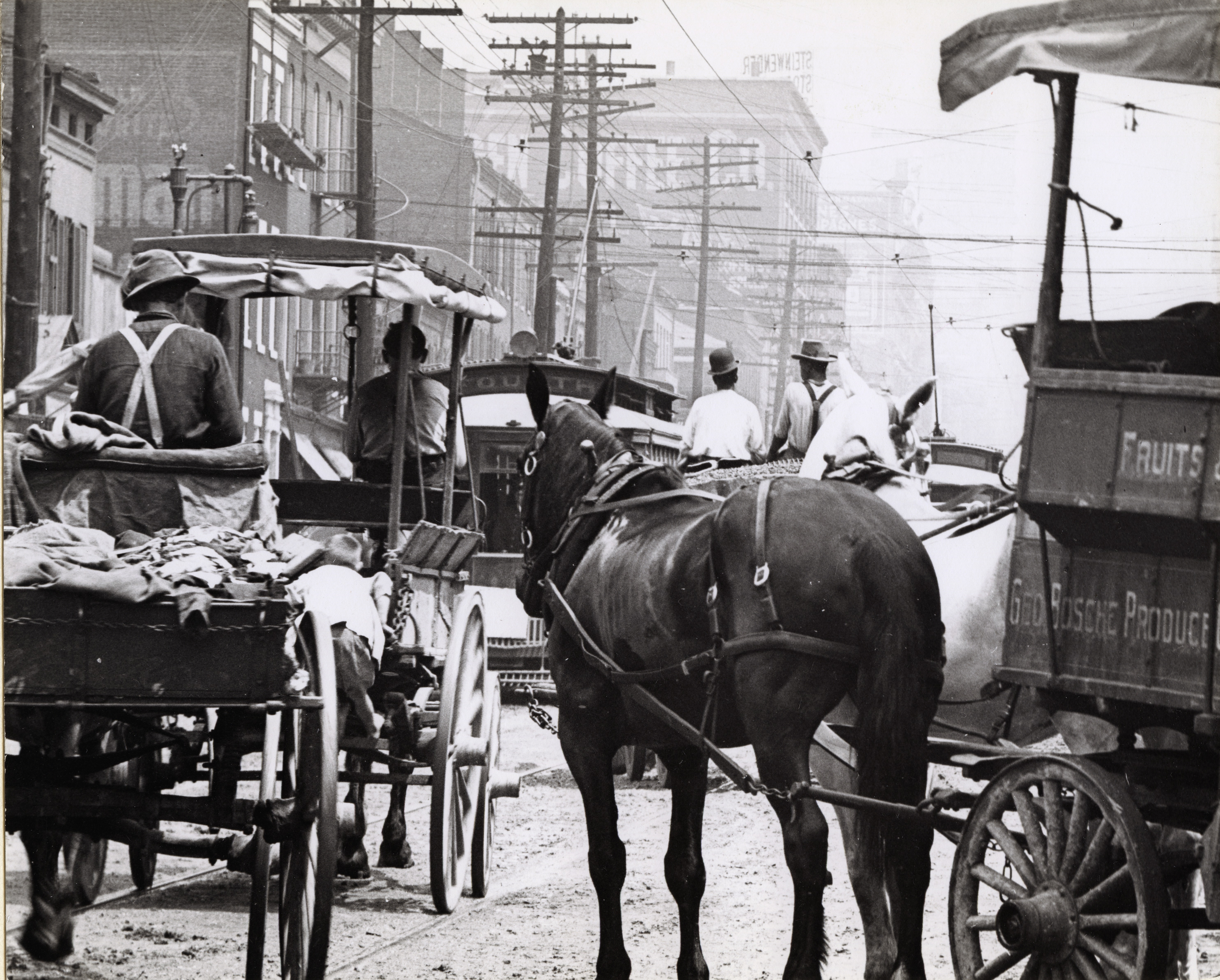 Horizontal, black and white photograph showing a George Bosche Produce Company cart pulling out into traffic on Broadway near the corner of Cerre Street. Several other carts and wagons can be seen on the left side of the photograph. The produce company wagon is on the right, waiting to enter the stream of traffic. Brick buildings and power lines can be seen along both sides of the street. This photograph is a detail of images 8357 and 25971.Title: George Bosche Produce Company wagon pulling out into traffic on Broadway near the corner of Cerre Street.